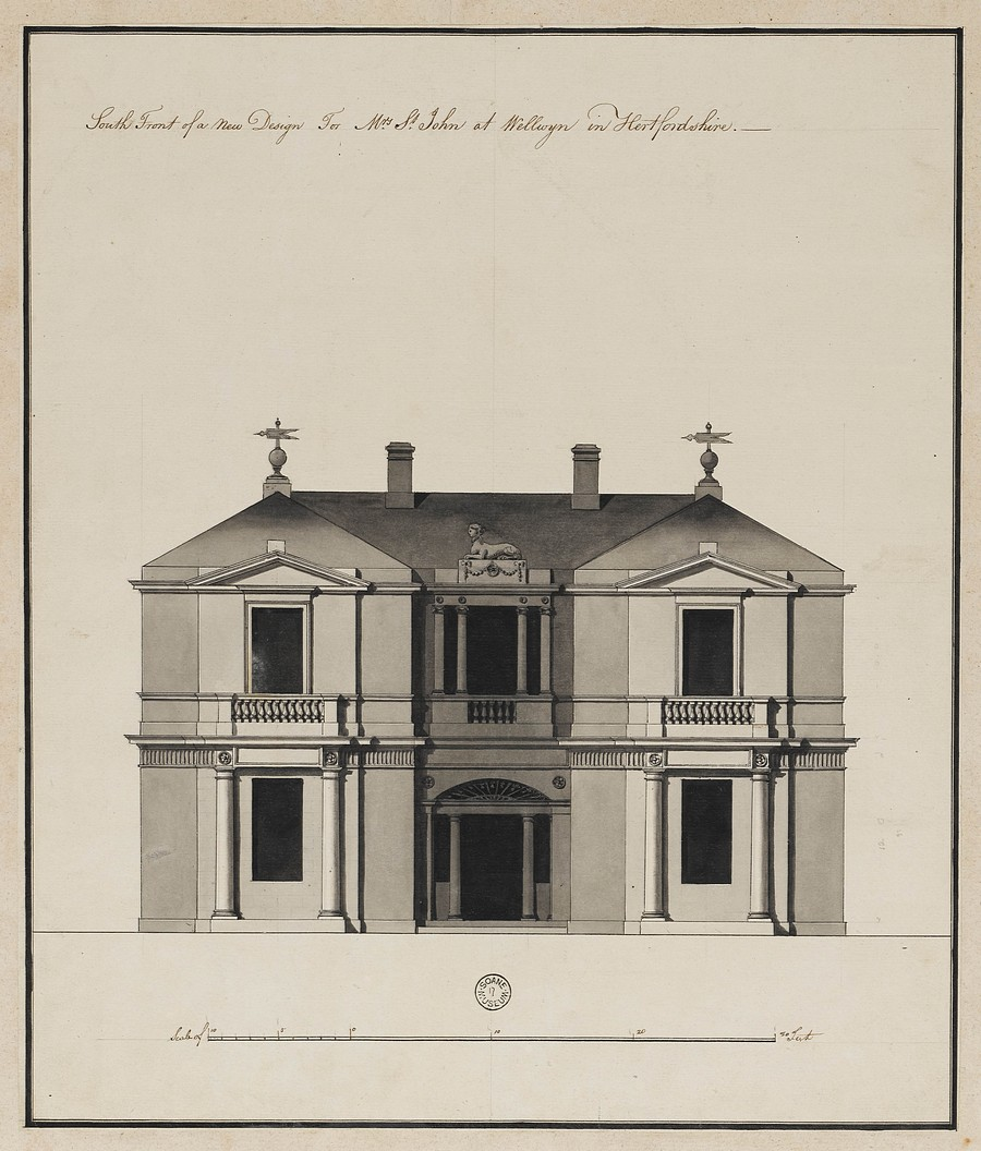 Drawing for a villa, St John's Lodge, at Welwyn, Hertfordshire, England. The final design was modified, and the house later renamed to Danesbury House.